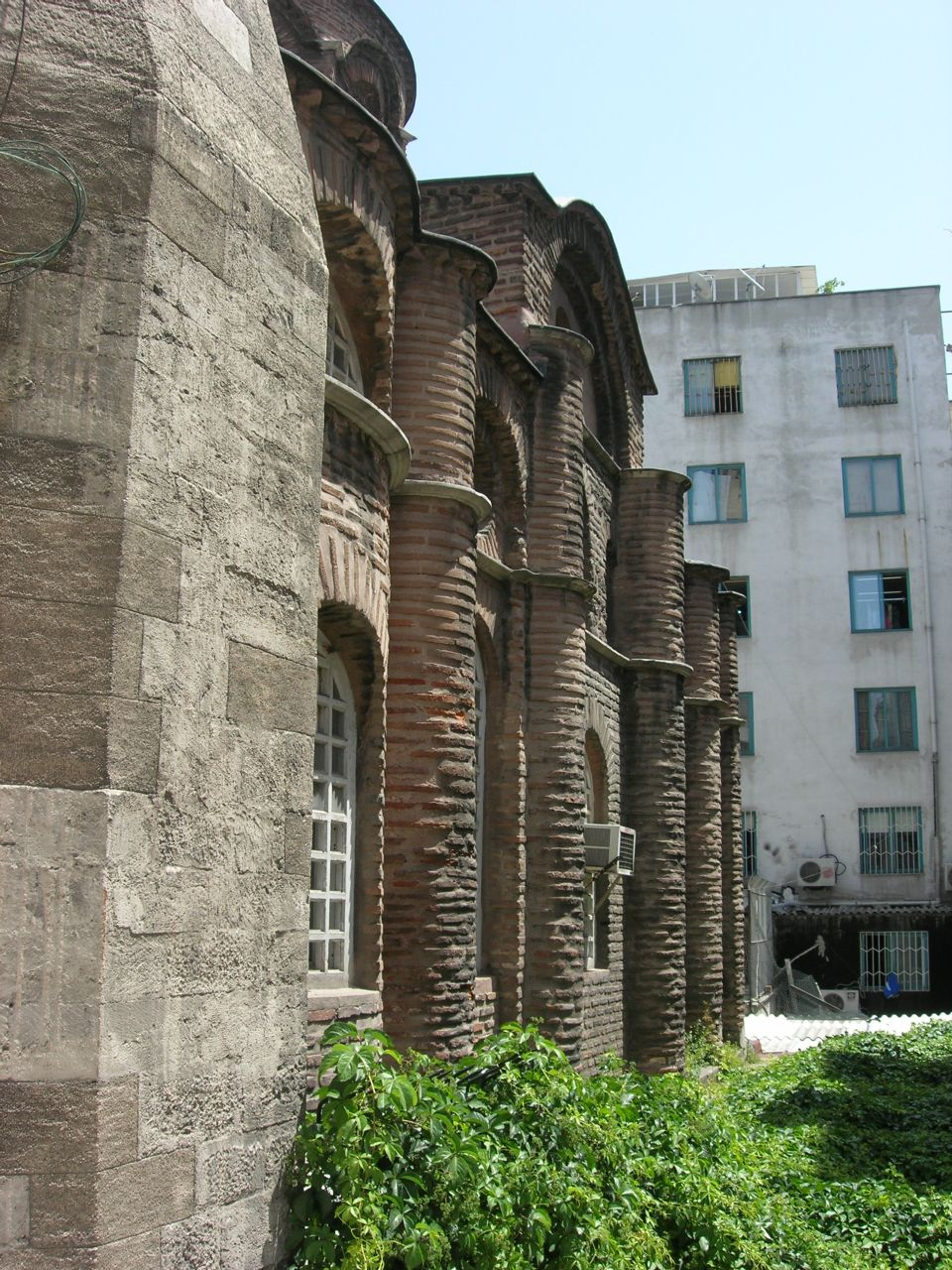 The South side of the former Church of the Myrelaion( today mosque of Bodrum) in Istanbul